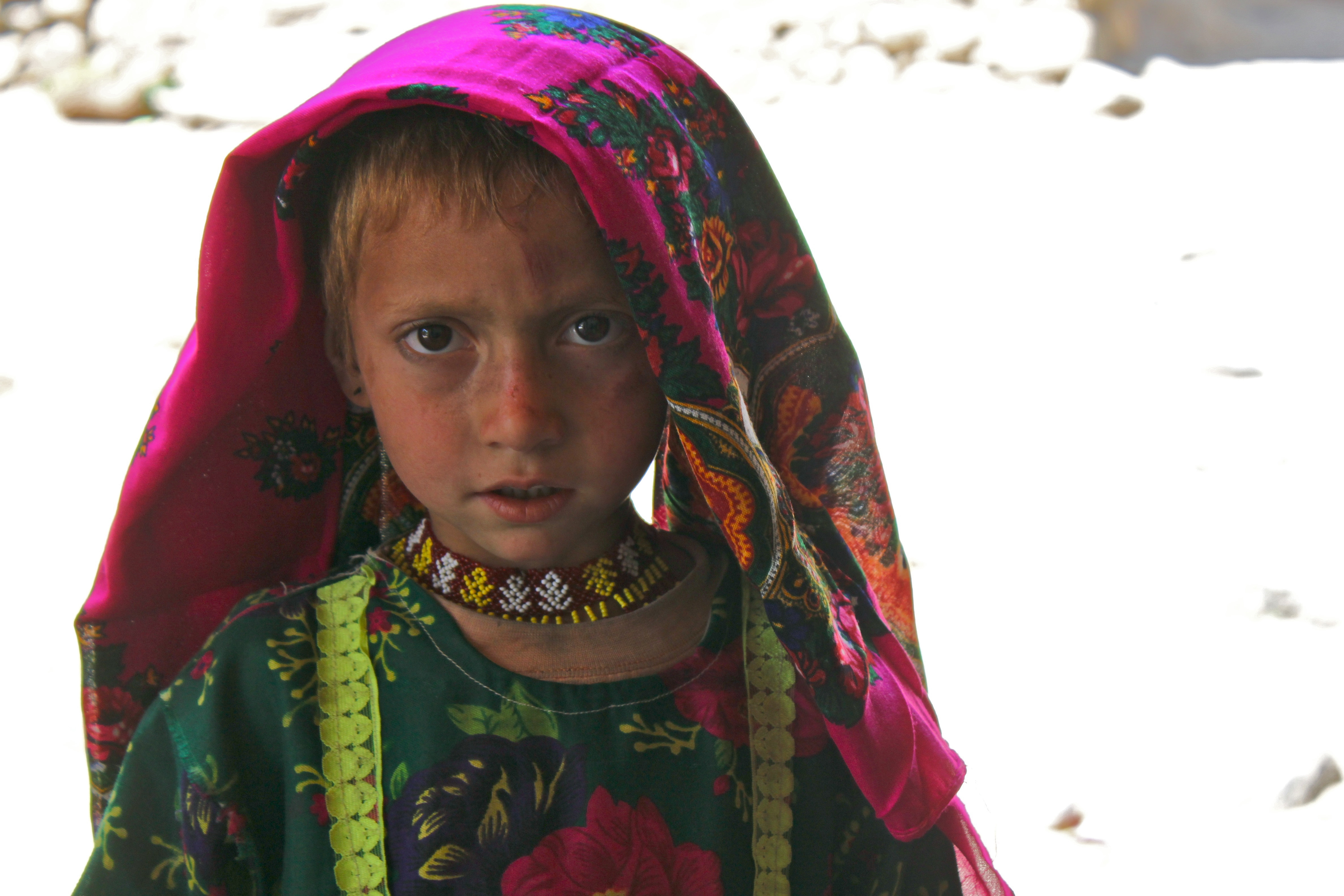 The following is the author's description of the photograph quoted directly from the photograph's Flickr page. "A young Pashai girl. Very distinctive colors an patterns, much different the Pashtuns in the valleys below. "Pashai are a Dardic ethno-linguistic group living primarily in eastern Afghanistan. Their total population is estimated to be 500,000.[3] They are mainly concentrated in the northern parts of Laghman and Nangarhar provinces and eastern Kapisa province. Pashai are believed to be descendants of ancient G%u0101ndh%u0101r%u012B.[4][5] Many Pashai consider themselves Pashtuns speaking a special language,[6] and many are bilingual in Pashto.[2] Small Pashai communities can also be found in the Chitral district of northwestern Pakistan. The majority of Pashai are Sunni Muslims and are often referred to as Kohistani[6], while a minority are Nizari Ismaili Muslims." She speaks Pashayi... "Pashayi - also known as Pashai - is a language (or a group of languages) spoken in parts of Kapisa, Laghman, Nuristan, Kunar, and Nangarhar Provinces in Northeastern Afghanistan. It belongs to the Indo-European language family, and is on the Dardic group of the Indo-Aryan branch.[1] It was spoken by over 216,842 people who are predominantly Muslim. Literacy rates are low: below 1% for people who have it as a first language, and between 15% to 25% for people who have it as a second language.[2] There are four main varieties, which are all mutually unintelligible: the Northeastern, the Northwestern, the Southeastern and the Southwestern." Photos from our trip to Dari Noor "